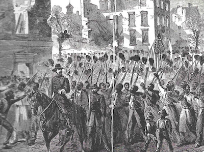 American Civil War. Charleston, South Carolina, circa 1865.